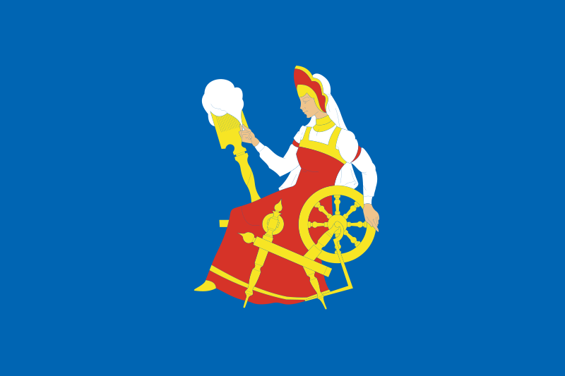 Ivanovo (Ivanovo oblast), flag